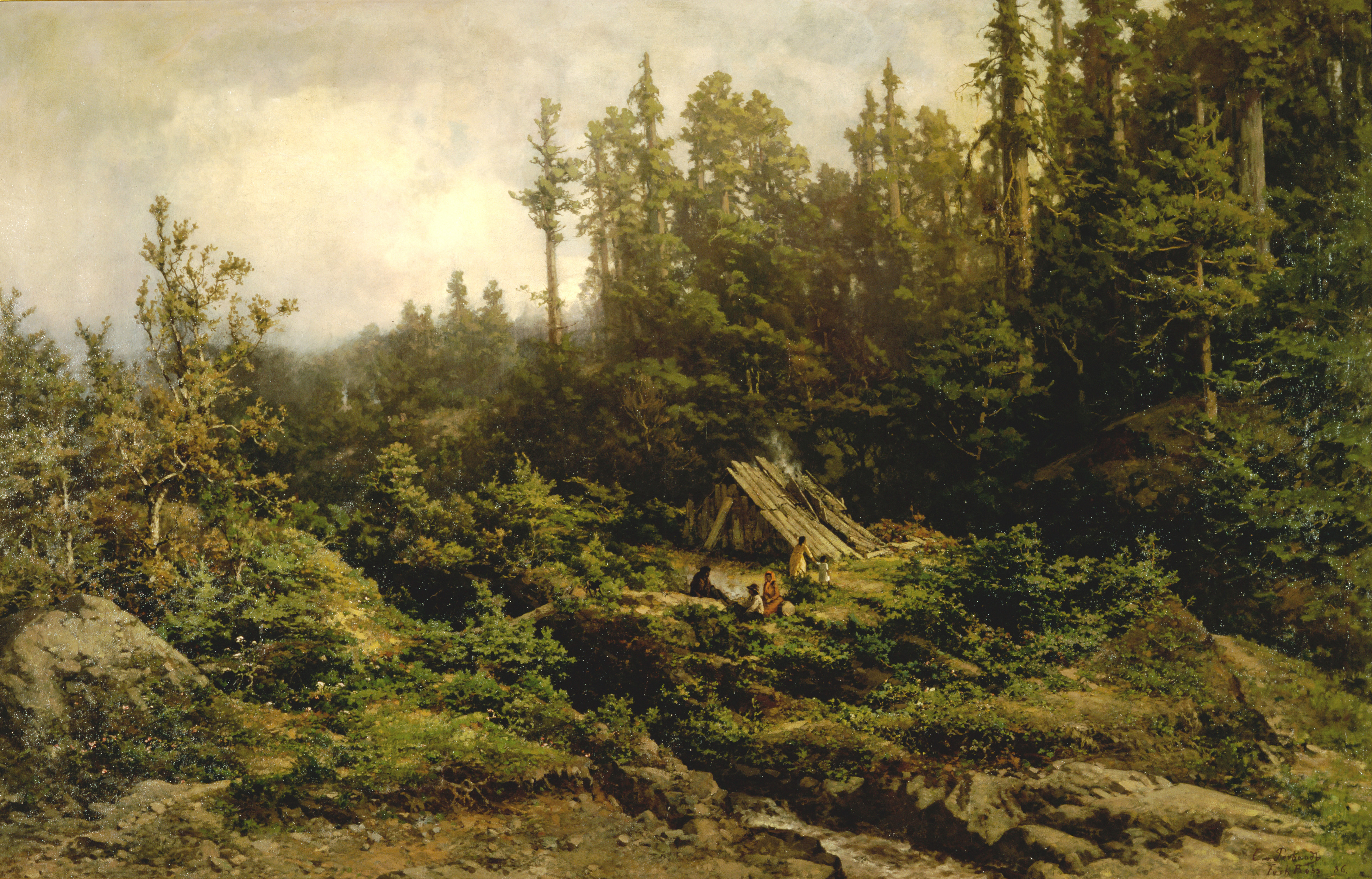 Pomo Indians Camped at Fort Ross by Carl Von Perbandt